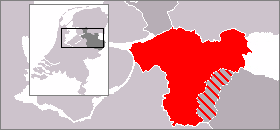 Map of the eastern Netherlands giving the location of Salland within the province of Overijssel. Other parts of Overijssel are shaded dark grey; other parts of the Netherlands, light grey. Germany lies to the east, shaded white.